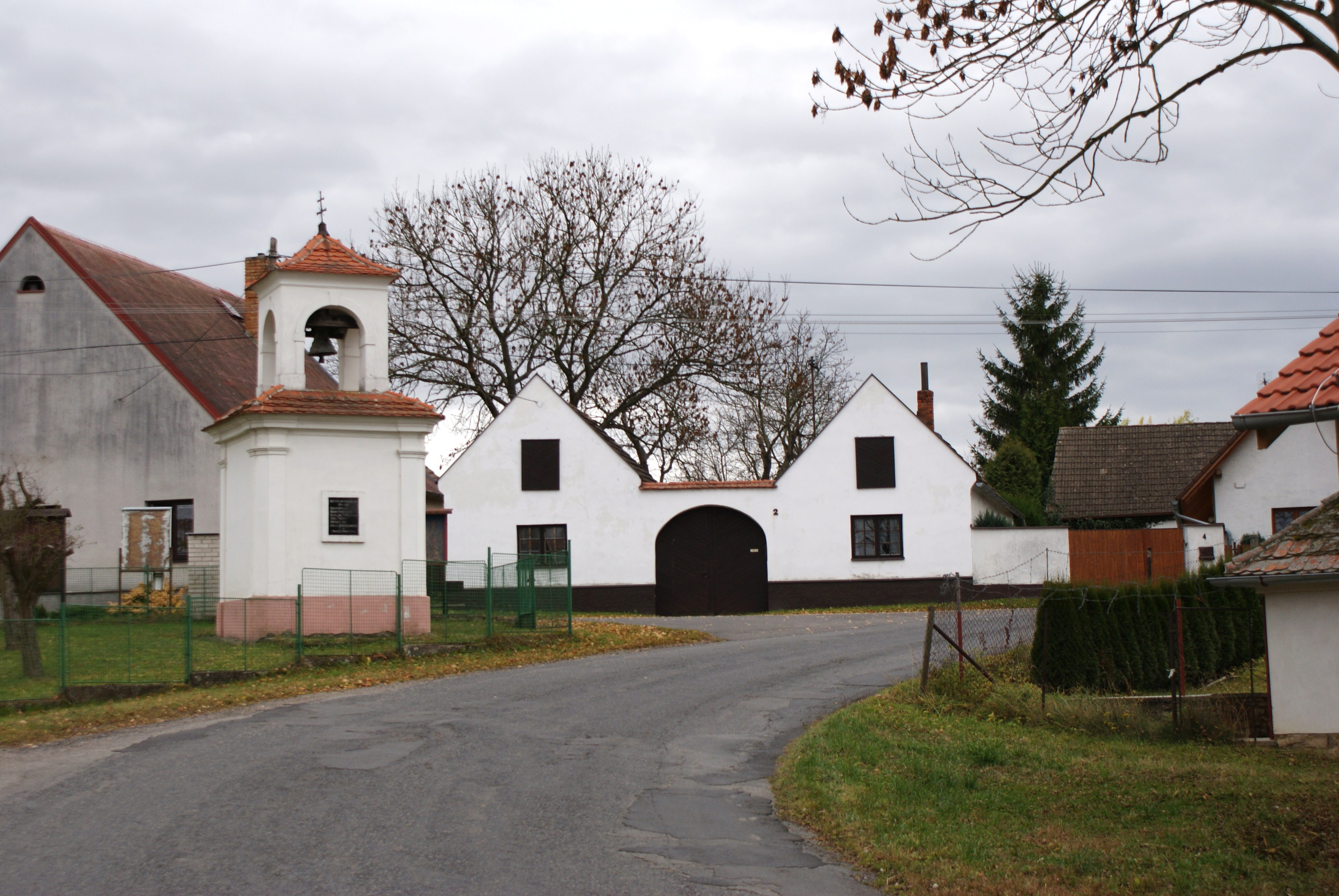 Hvožďany (Vodňany), a village in Strakonice District, Czech Rep., a chapel on the common.